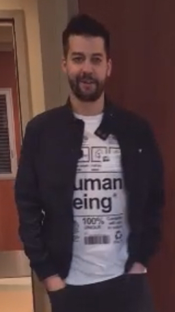 Comedian John B. Crist visiting a fan in the hospital in 2019